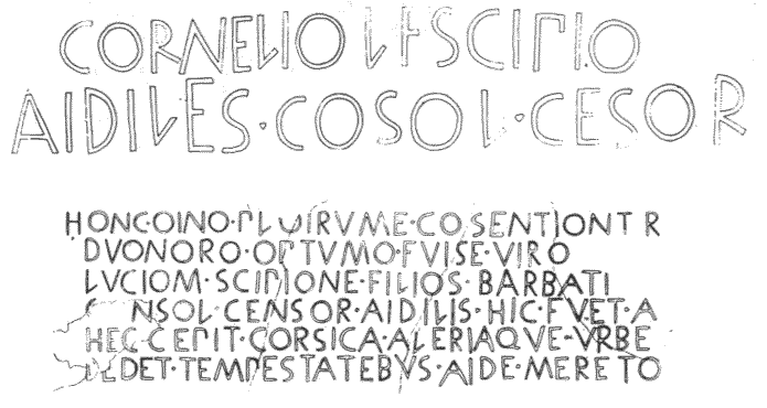 inscription from Scipio's grave, rome (check the letters on this map)